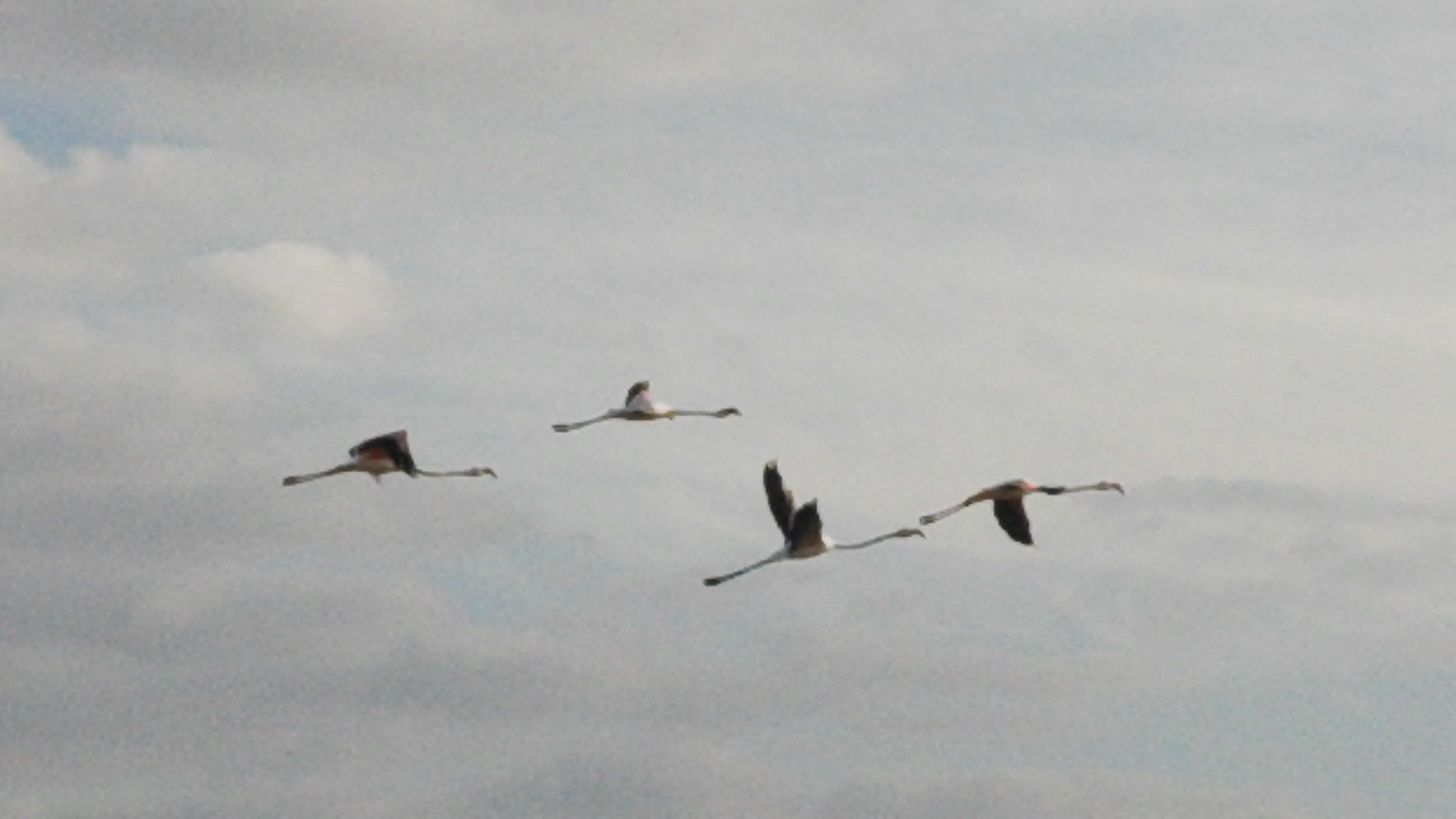 Flamingos over Lakeview, Welkom Other information Nil